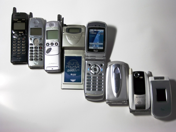 P203/521G/DP222/DuPaMAX2881P/N2051/N2001/V601N/CDMA-5306ST Mobile_phone_evolution_Japan_1997-2004